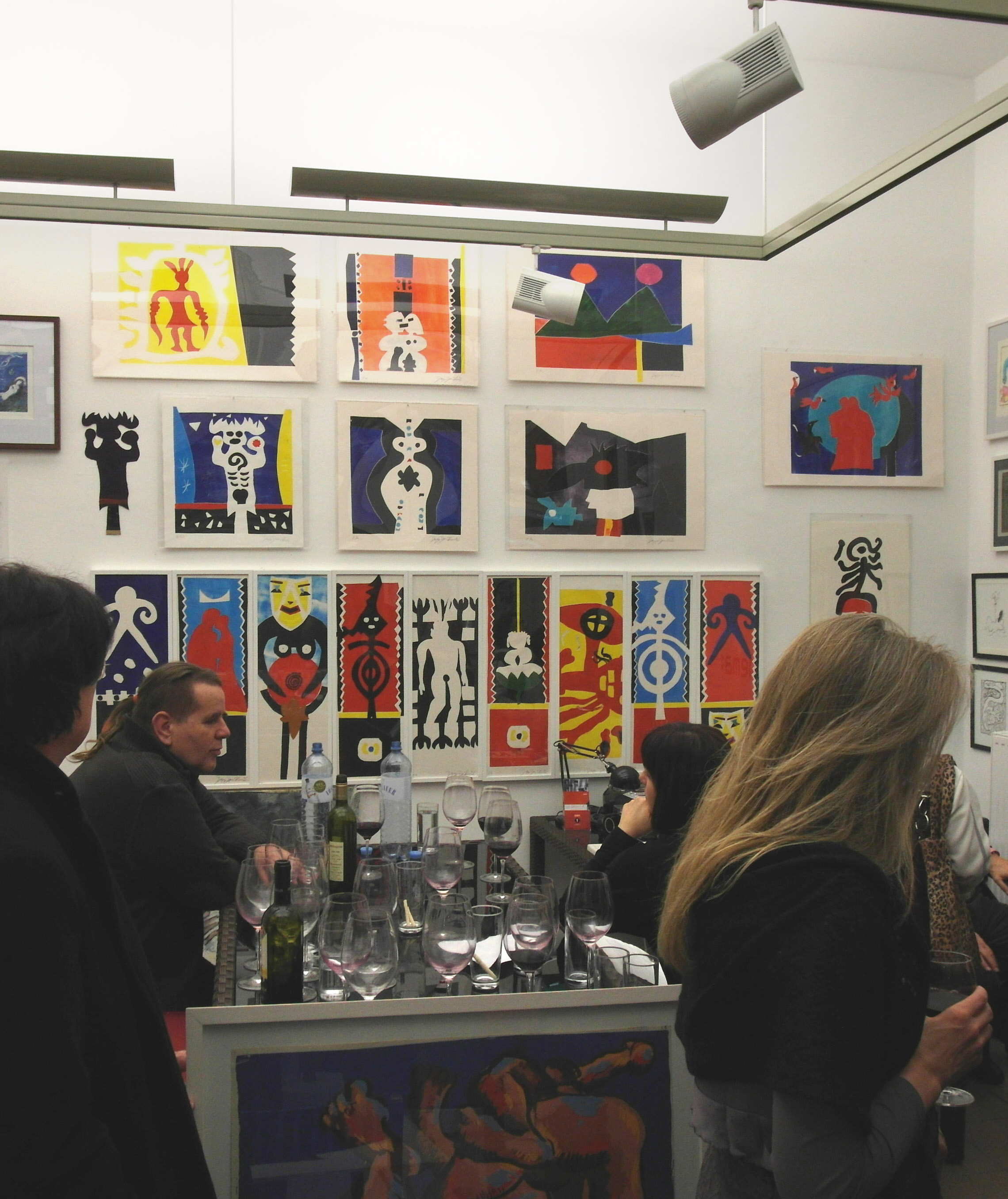 Vernissage of one 2011 exhibit of Drago Druškovič's recent work, in Vienna, Austria.